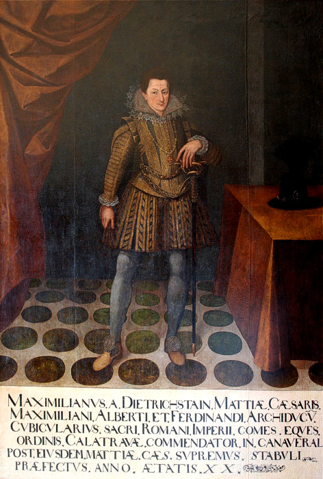 Beginning of the 17th century. Autor: Anonymous. Oil on canvas, 270 x 187 cm